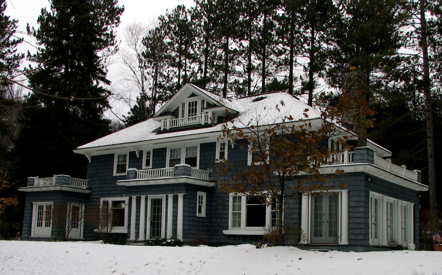 The Christy Mathewson "Cure Cottage" in Saranac Lake, New York. Taken by User:Mwanner, 29 November, 2007.